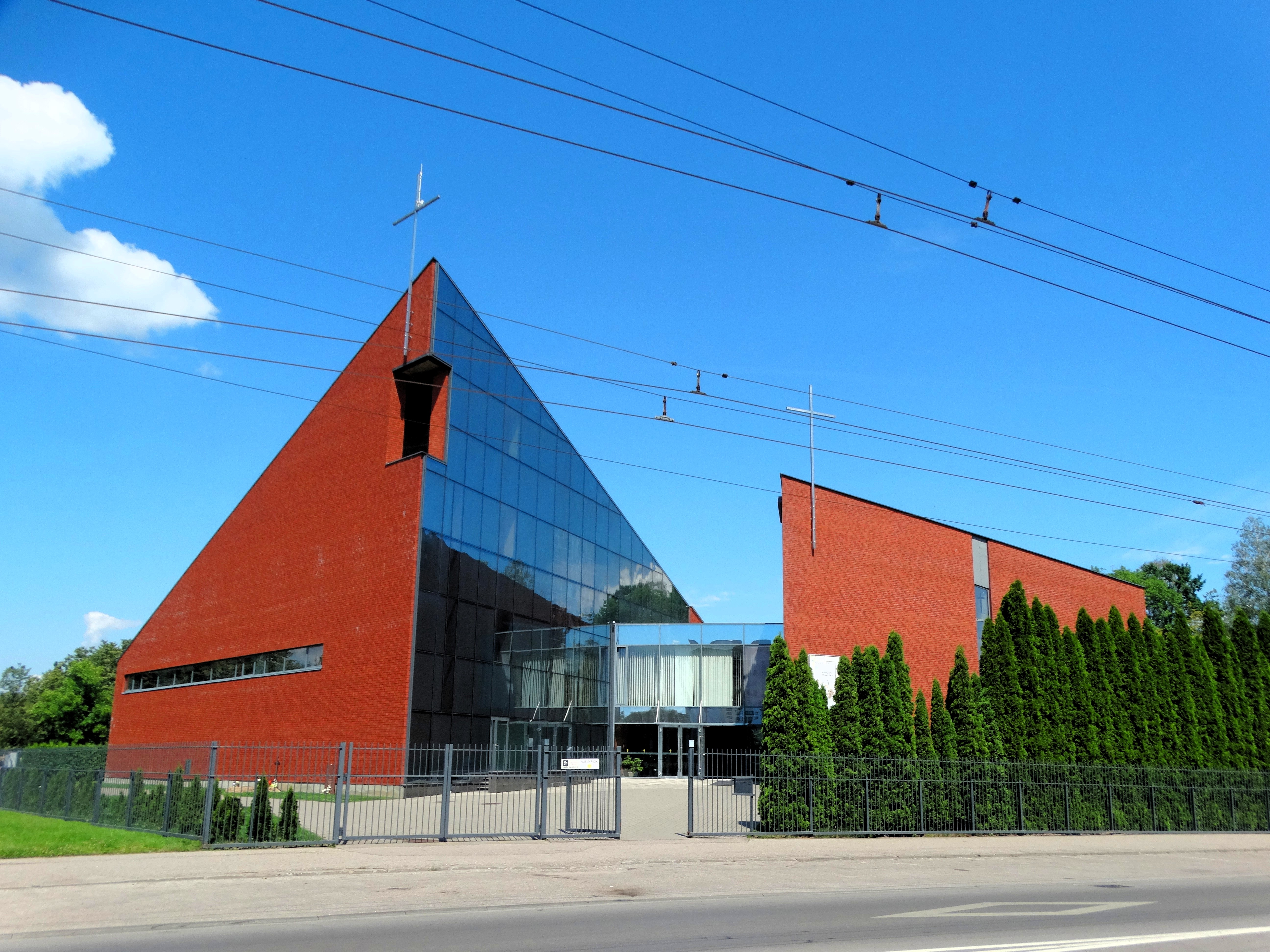 Good Shepherd church, Dainava, Kaunas, Lithuania